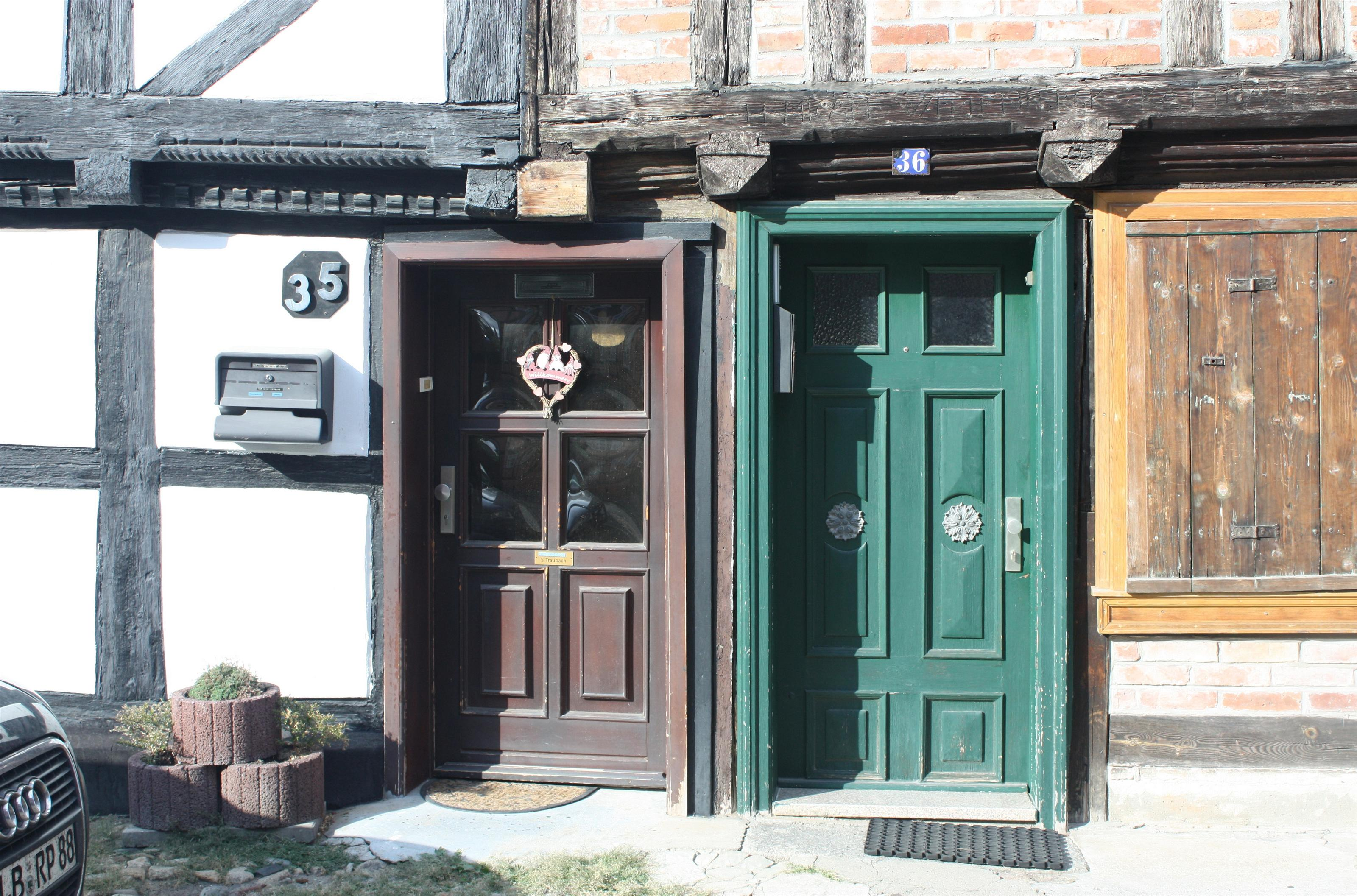 This is a photograph of an architectural monument.It is on the list of cultural monuments of Quedlinburg Augustinern 35-36 in Quedlinburg